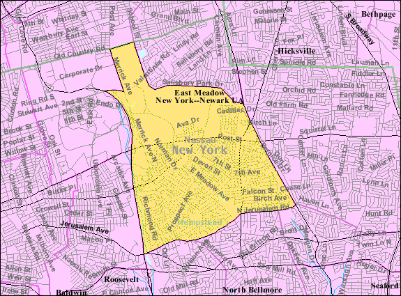 U.S. Census 2000 reference map for East Meadow, New York